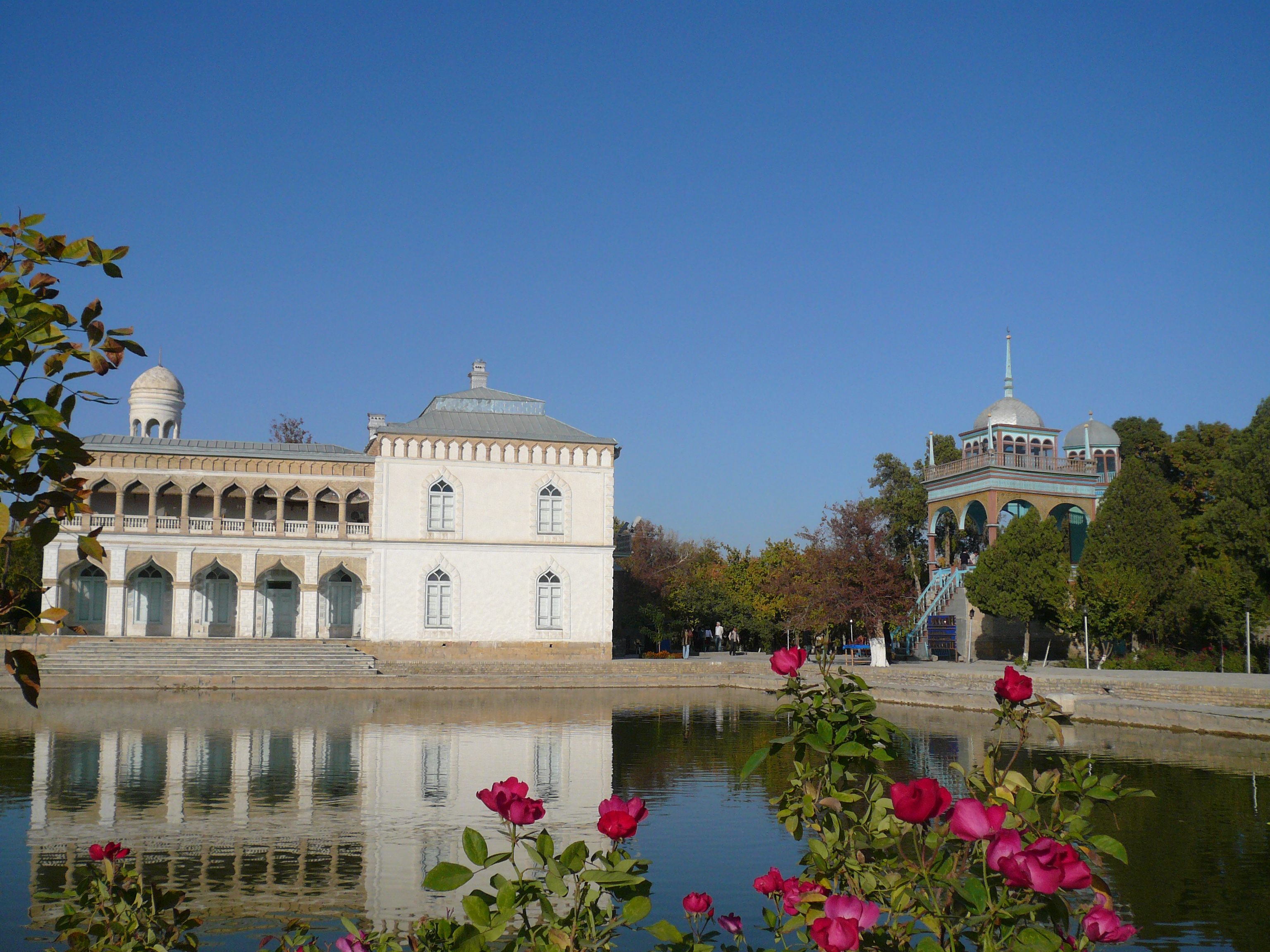 Sitorai Mokhi-hosa, Bukhara, Uzbekistan